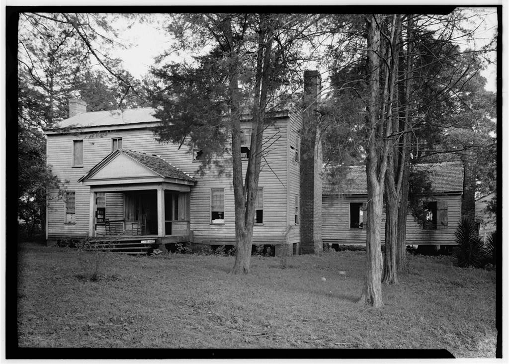 Hail / Captain Thomas William Blount House, San Augustine, Texas. Listed on the national Register of Historic Places. Historic American Buildings Survey—HABS image.